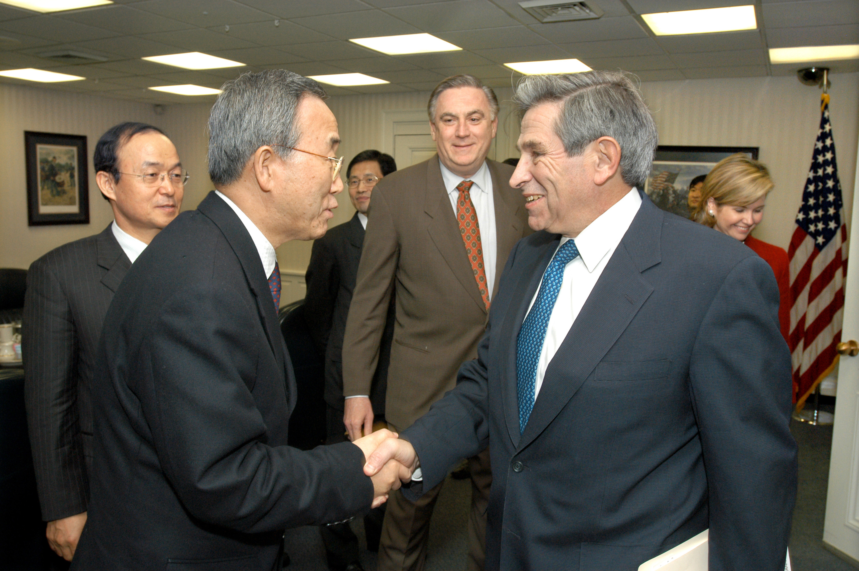 Deputy Secretary of Defense Paul Wolfowitz (right) greets South Korean Minister of Foreign Affairs and Trade Ban Ki-moon (left) in the Pentagon on Feb. 14, 2005. Wolfowitz, Ban and their senior advisors are meeting to discuss bilateral security issues. DoD photo by R. D. Ward. (Released) 050214-D-9880W-088